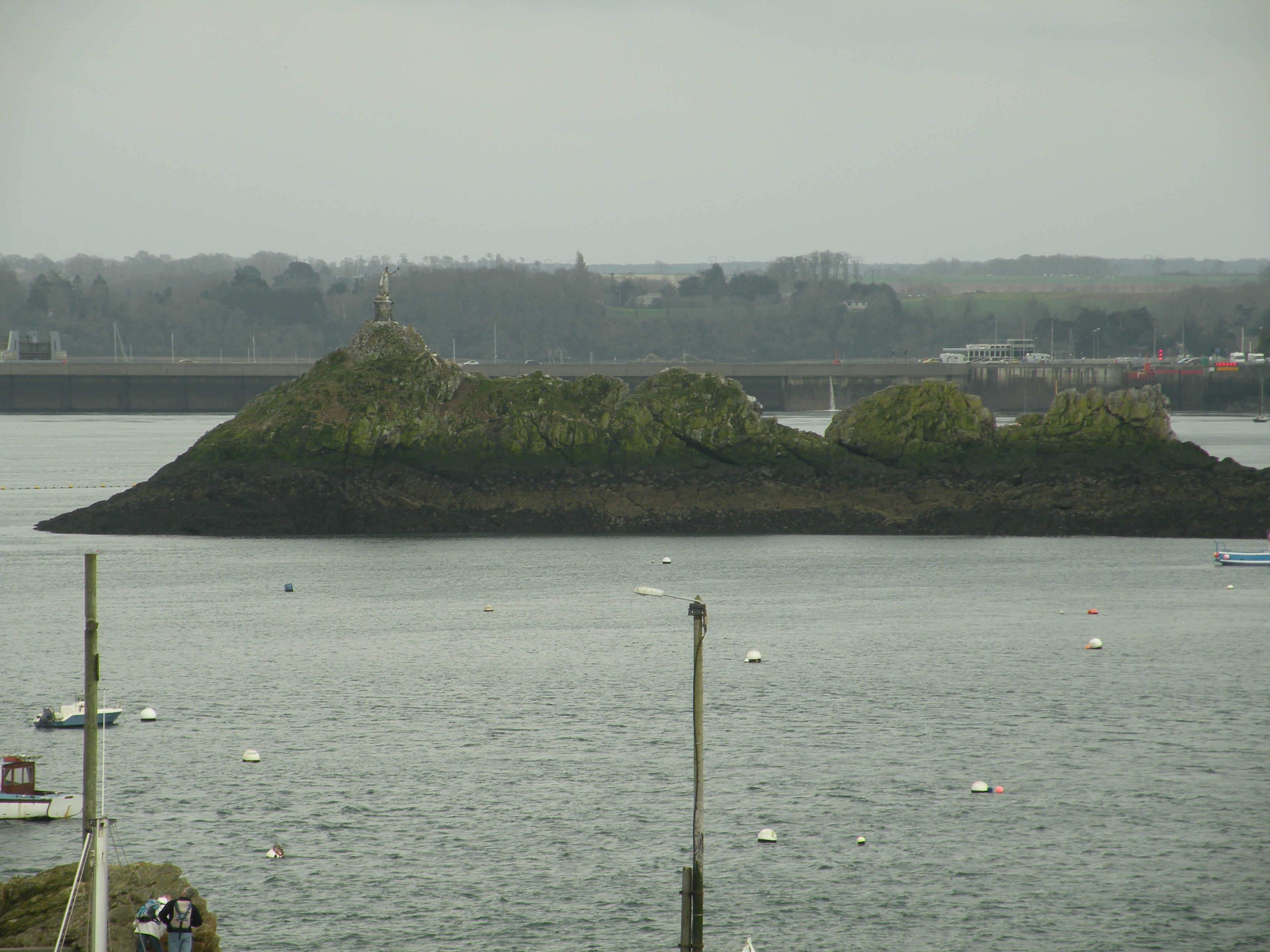 The rocher de Bizeux in Saint-Malo.